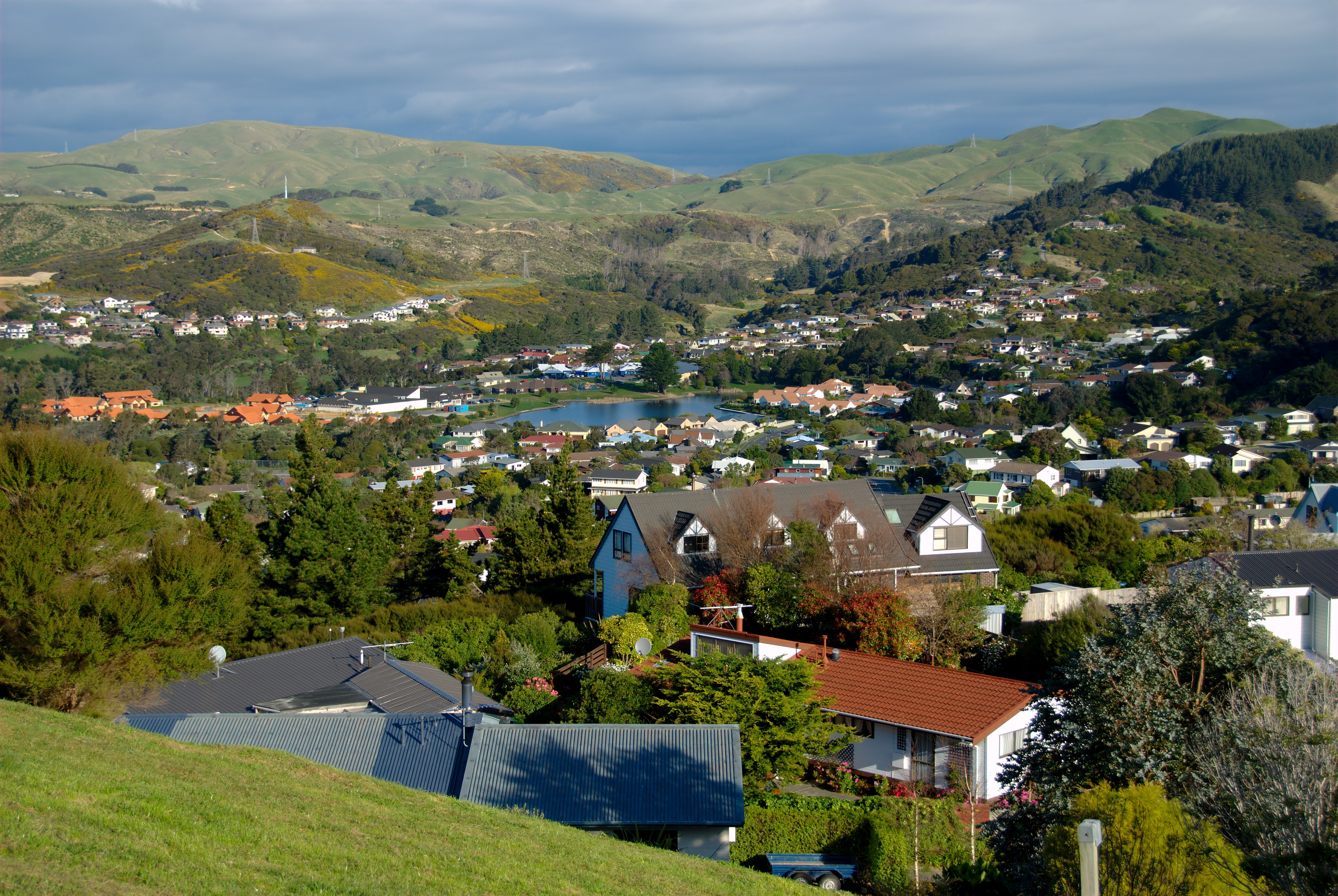 The southwestern parts of Whitby, New Zealand, showing the lower of the Whitby Lakes